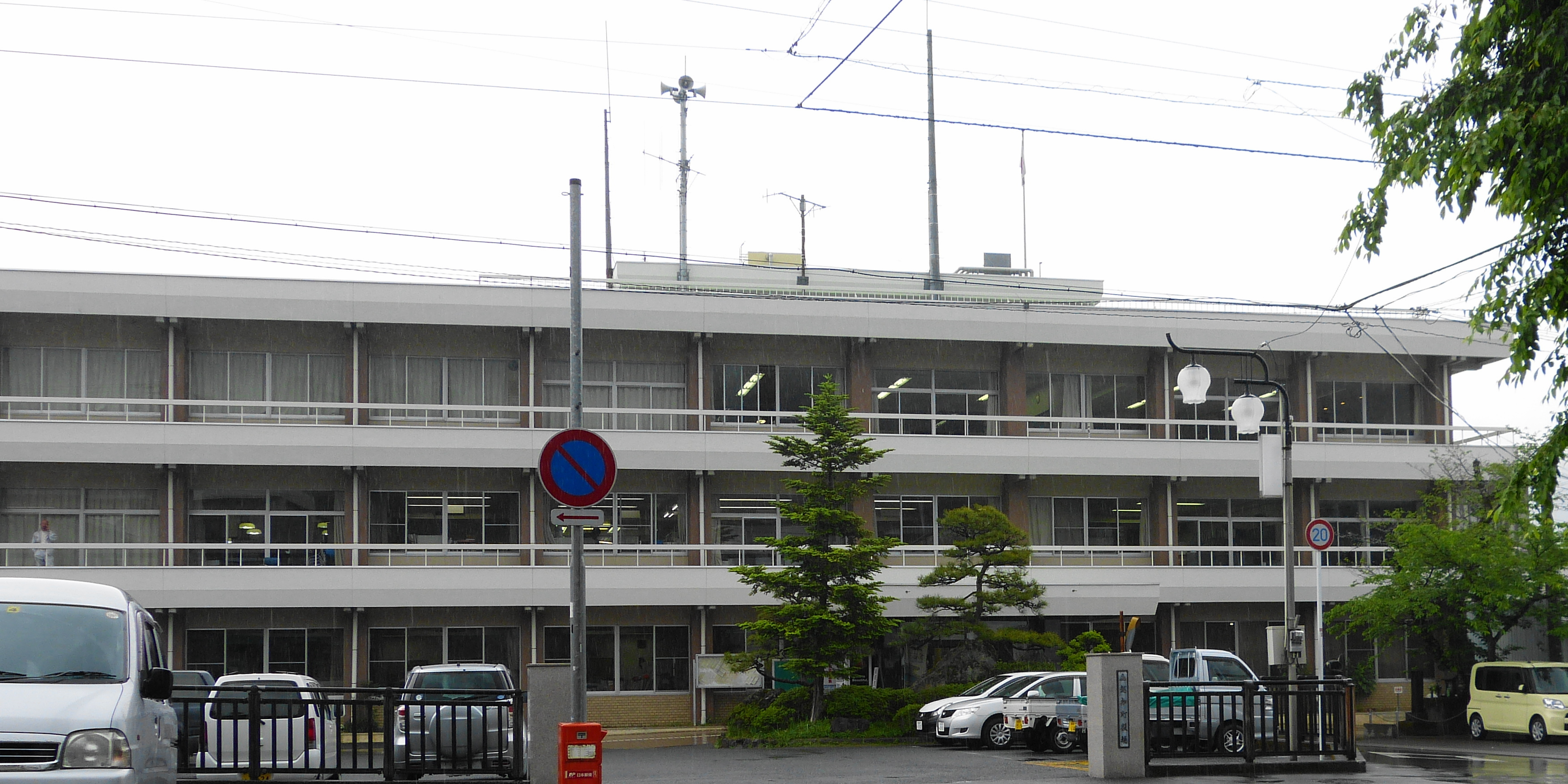 Ochi town hall,Kochi prefecture,Japan